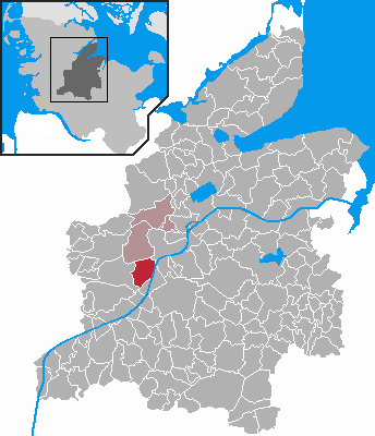 Locator maps of municipalities in Schleswig-Holstein - District Rendsburg-Eckernförde